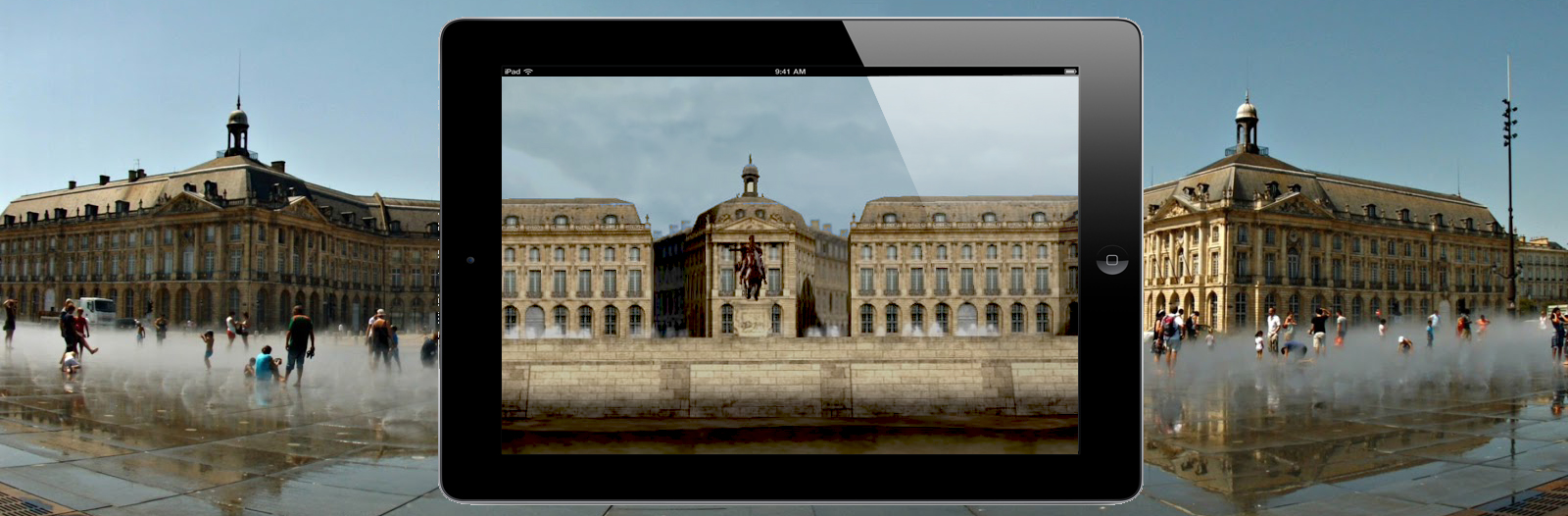 imayana place de la bourse